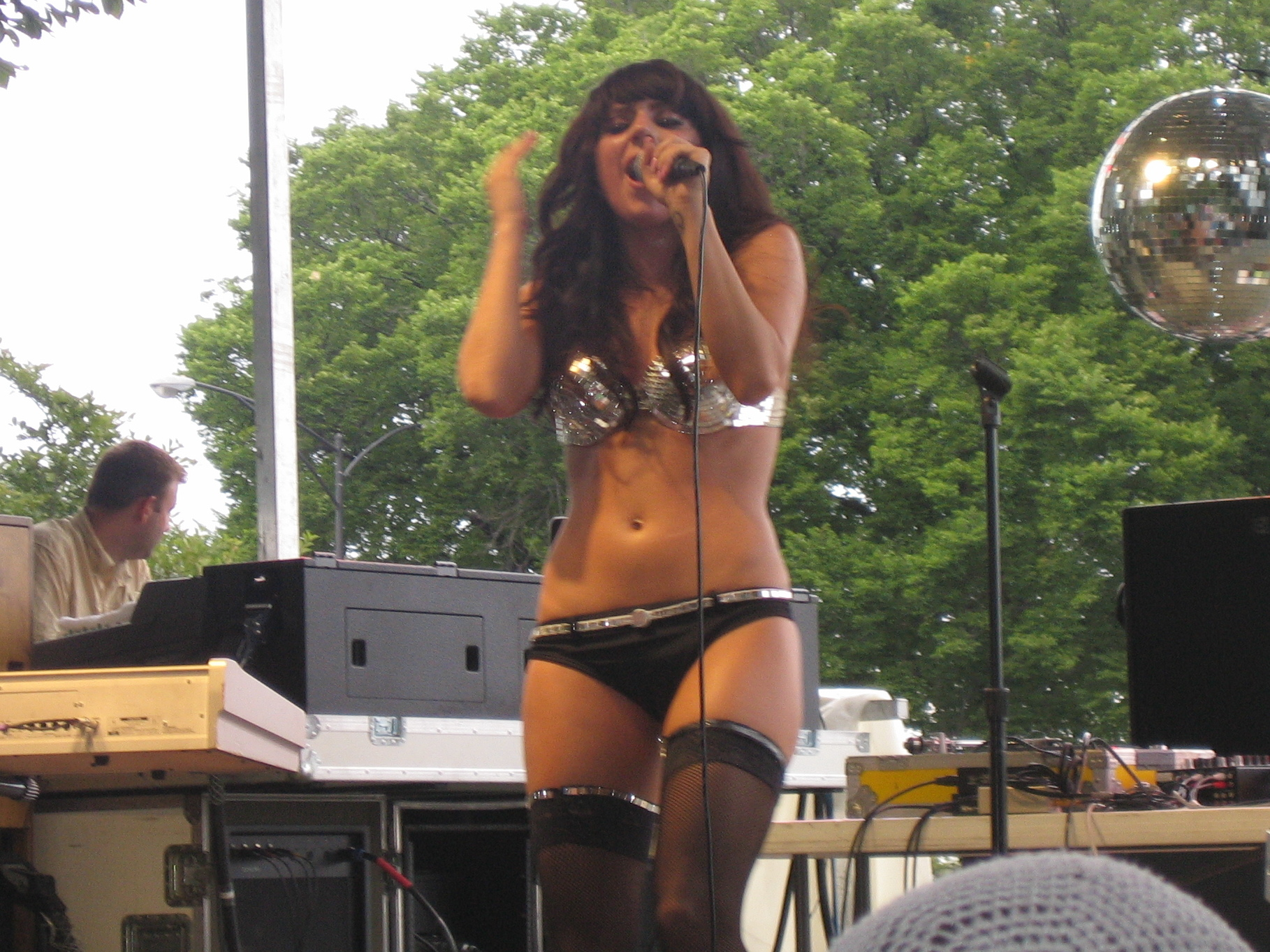 Lady Gaga at Lollapalooza, 2007.